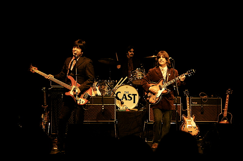 Taken by The Cast 2005 in New Milford, Ct at the High School